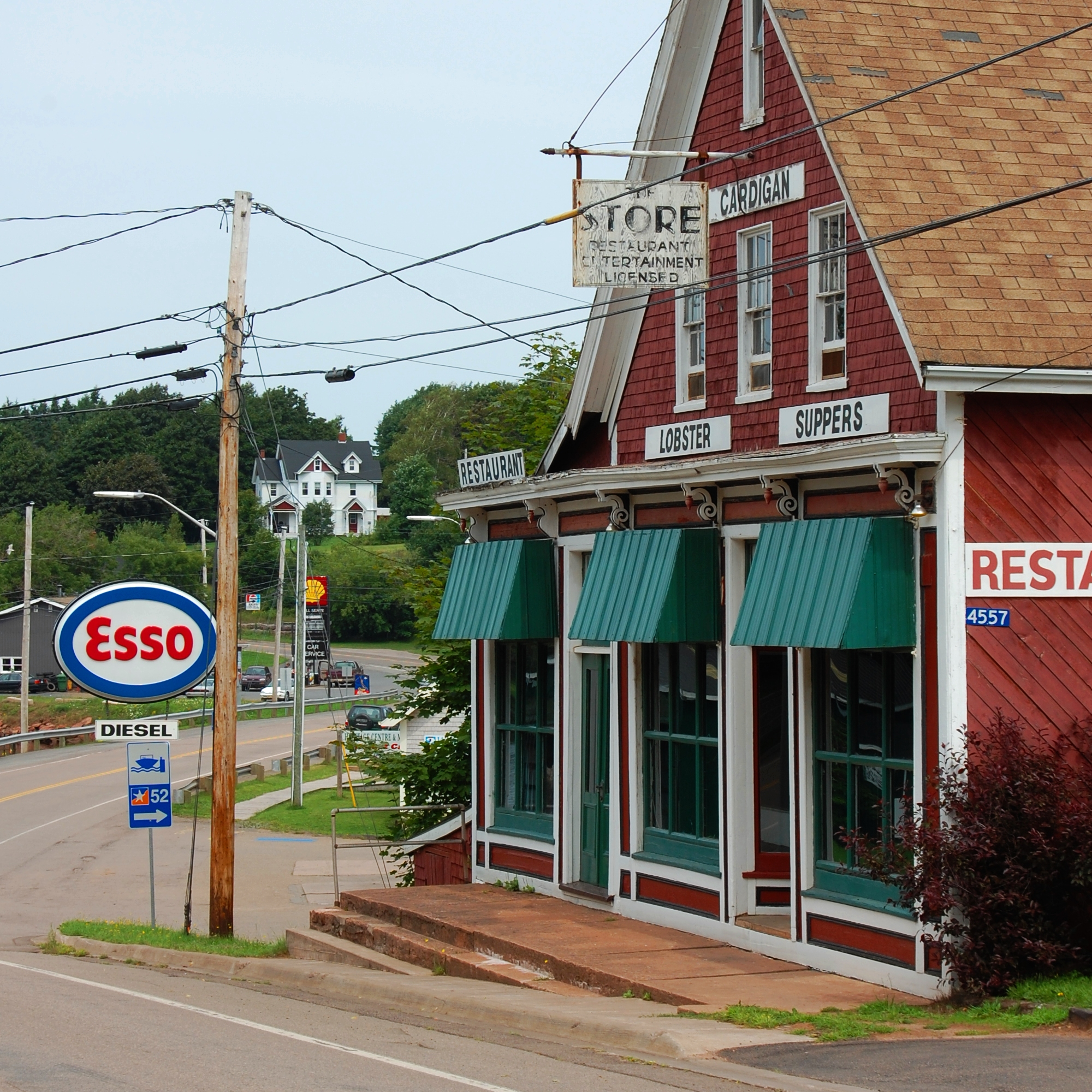 View of the mainstreet of Cardigan, Prince Edward Island, Canada. Cardigan is a small community on the eastern side of the island province.